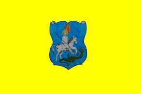 Flag of Es Castell (Minorca)